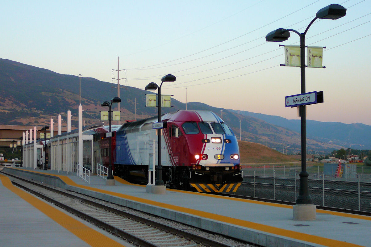 A FrontRunner train approaching the Farmington station.